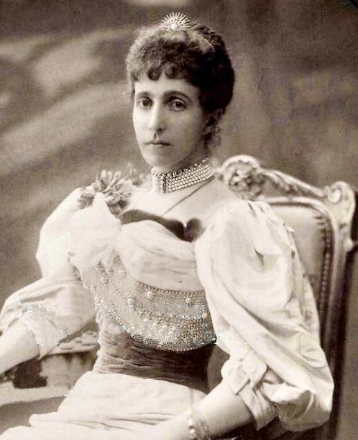 Maria Theresia von Braganza, Infantin von Portugal (1855–1944)